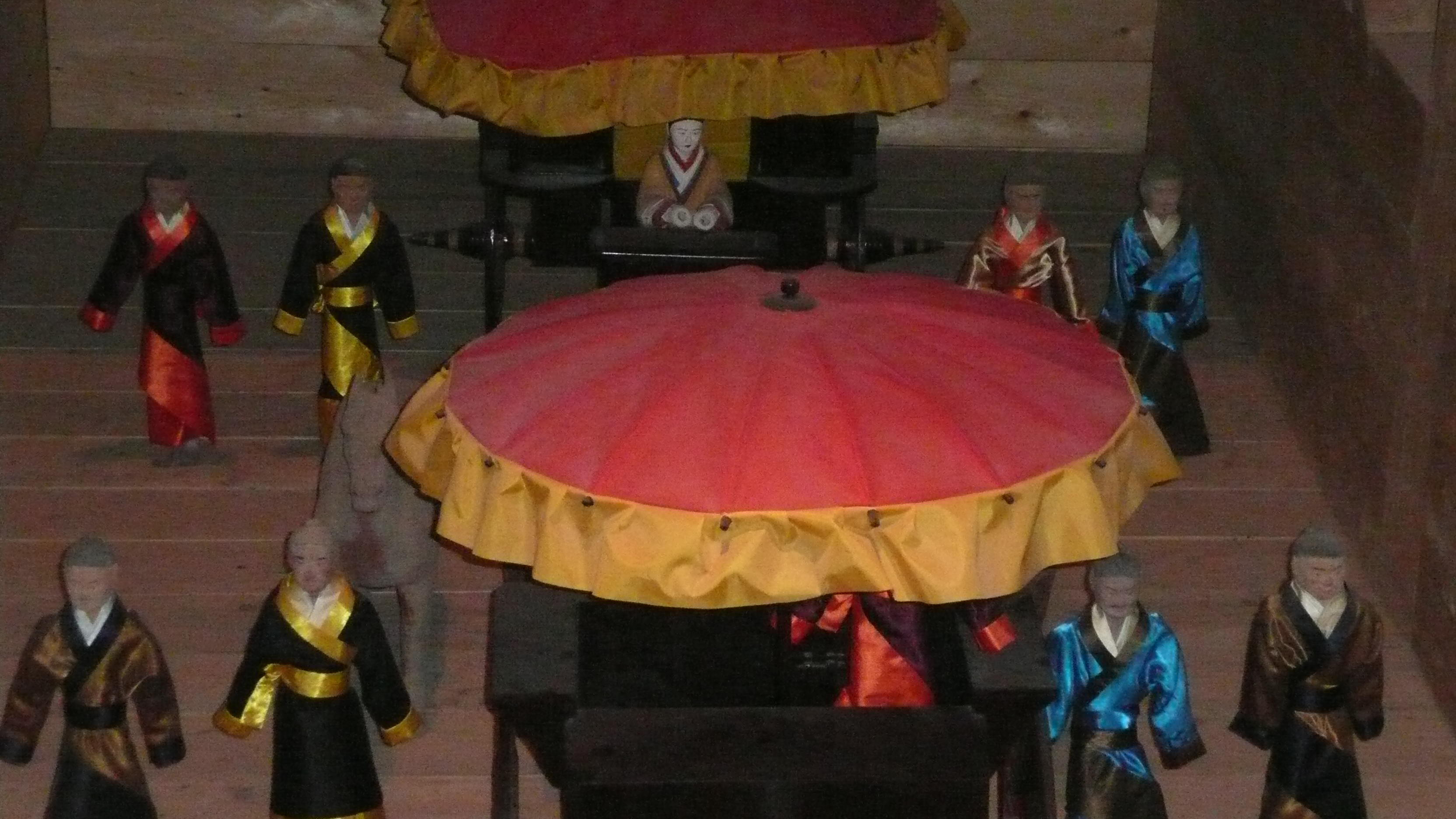 Han Yang Ling - Mausoleum of Jingdi, Han Emperor, Xianyang, near Xi'an